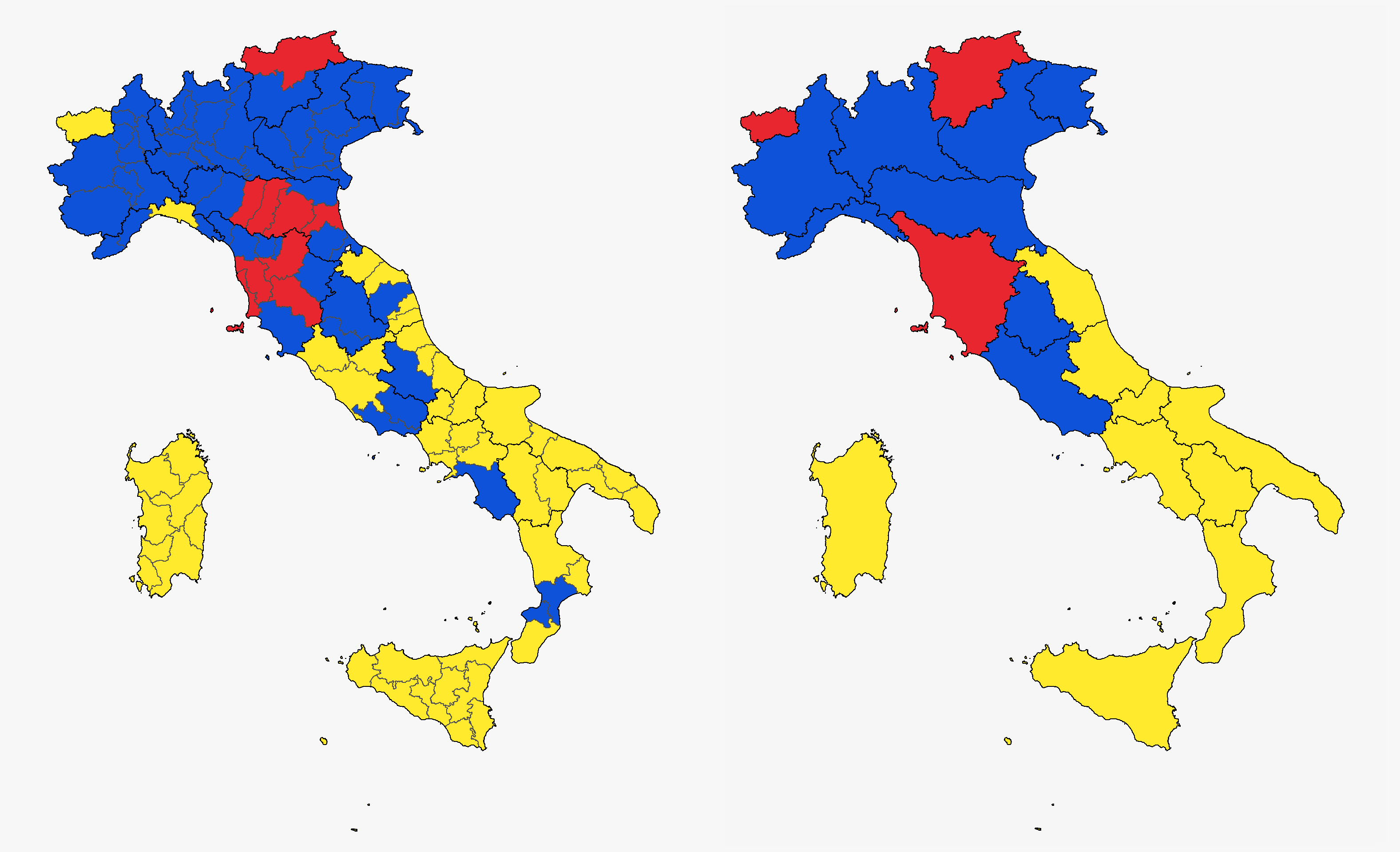 Maps of the 2018 Italian general election